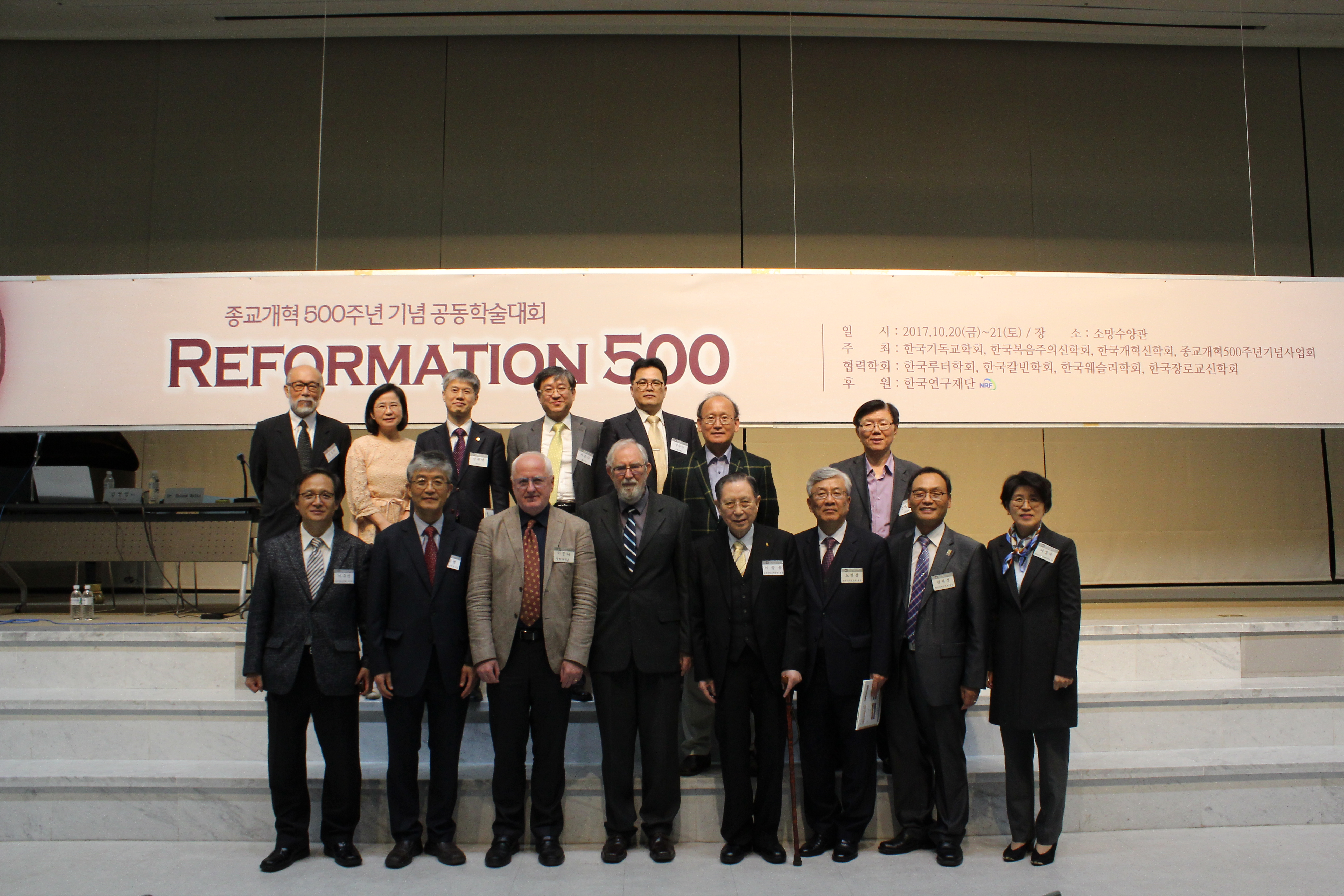 board of directors and speakers of Academic Conference of Reformation 500th Anniversary